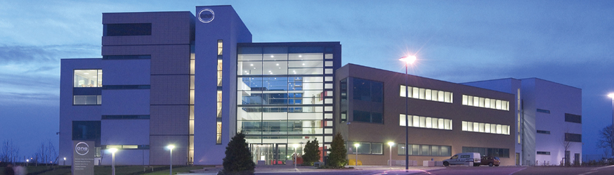 One Central Park.